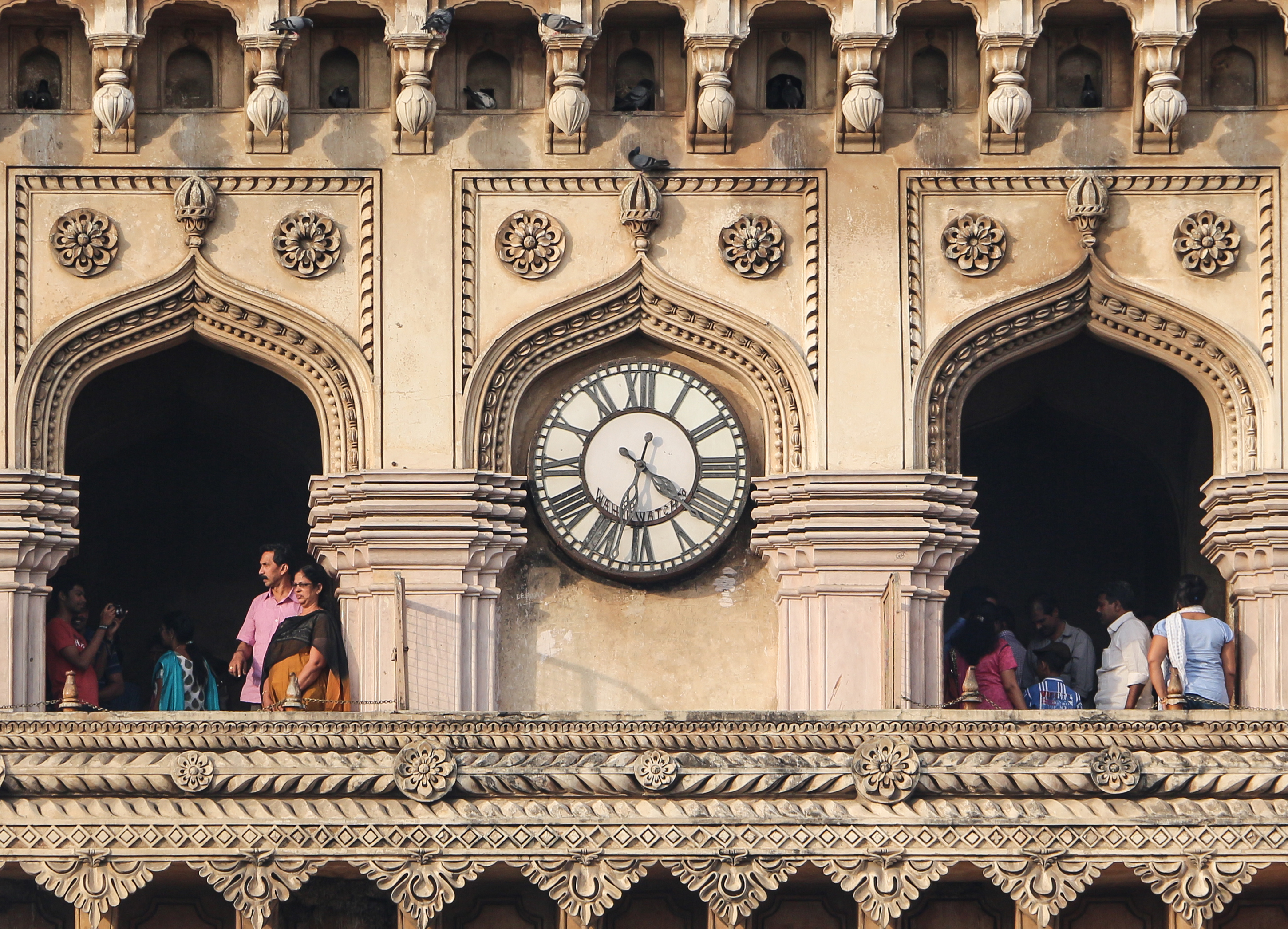 Clock of the Charminar, Hyderabad, India